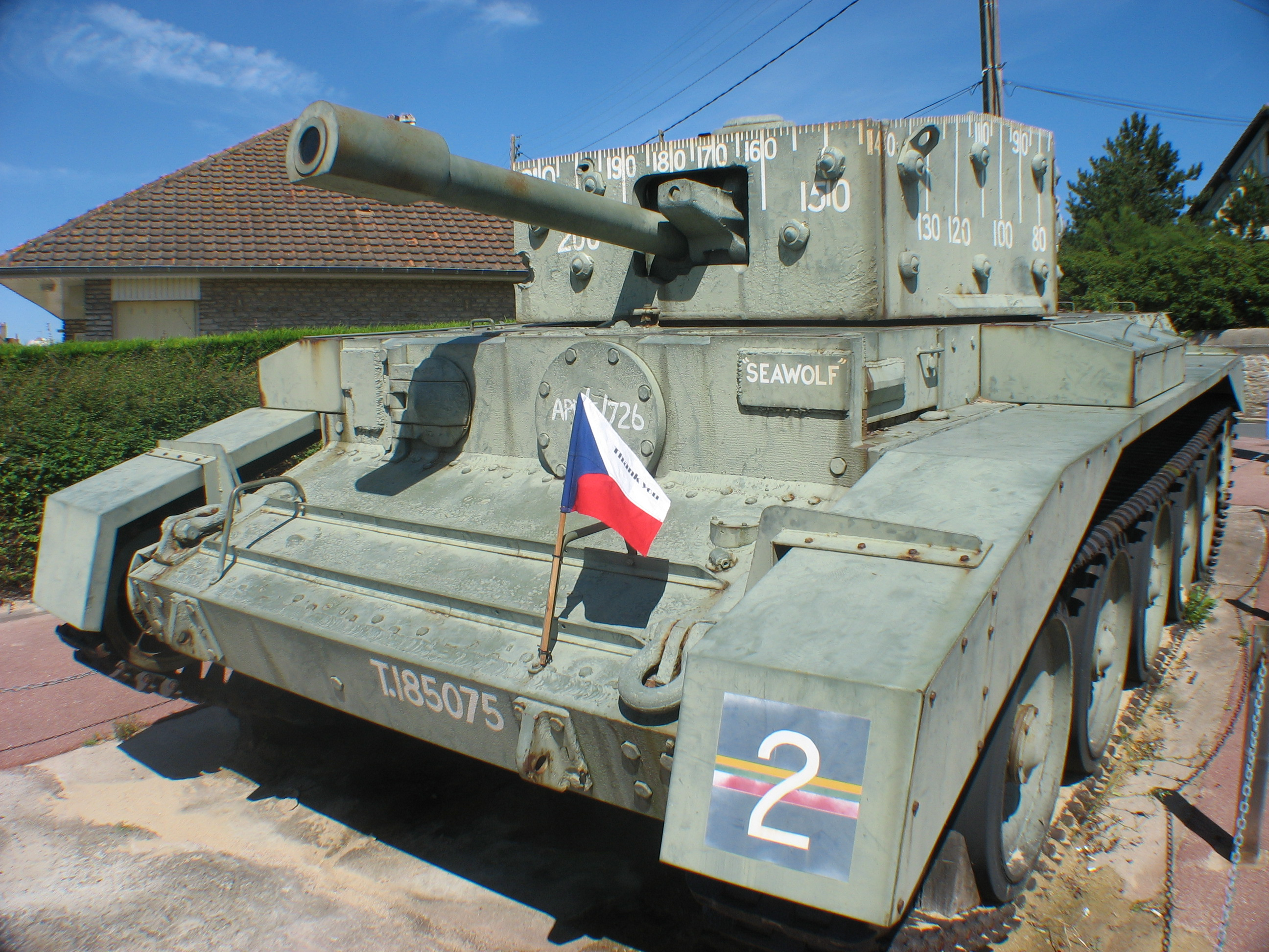 Tank memorial at Hermannville-sur-mer, France, Normandie. Text at the memorial-plaque: "At 07.30 hrs on 6th June 1944, 70 specially redesigned Churchill Tanks equipped with fascines, flails, Bangalore torpedoes and brigdes landes from 10 landing craft[s] and cleared the beach obstacles into a 200m wide safe lane in order that the advancing tropps could land safely on the beach. This Churchill Avre Mk III now stands as a memorial to all those who served and dies on these strands." - Little czech flag on the right with "Thank you" on it. - Perhaps the description is not complete right, the tank looks more like type Cromwell or Centaur